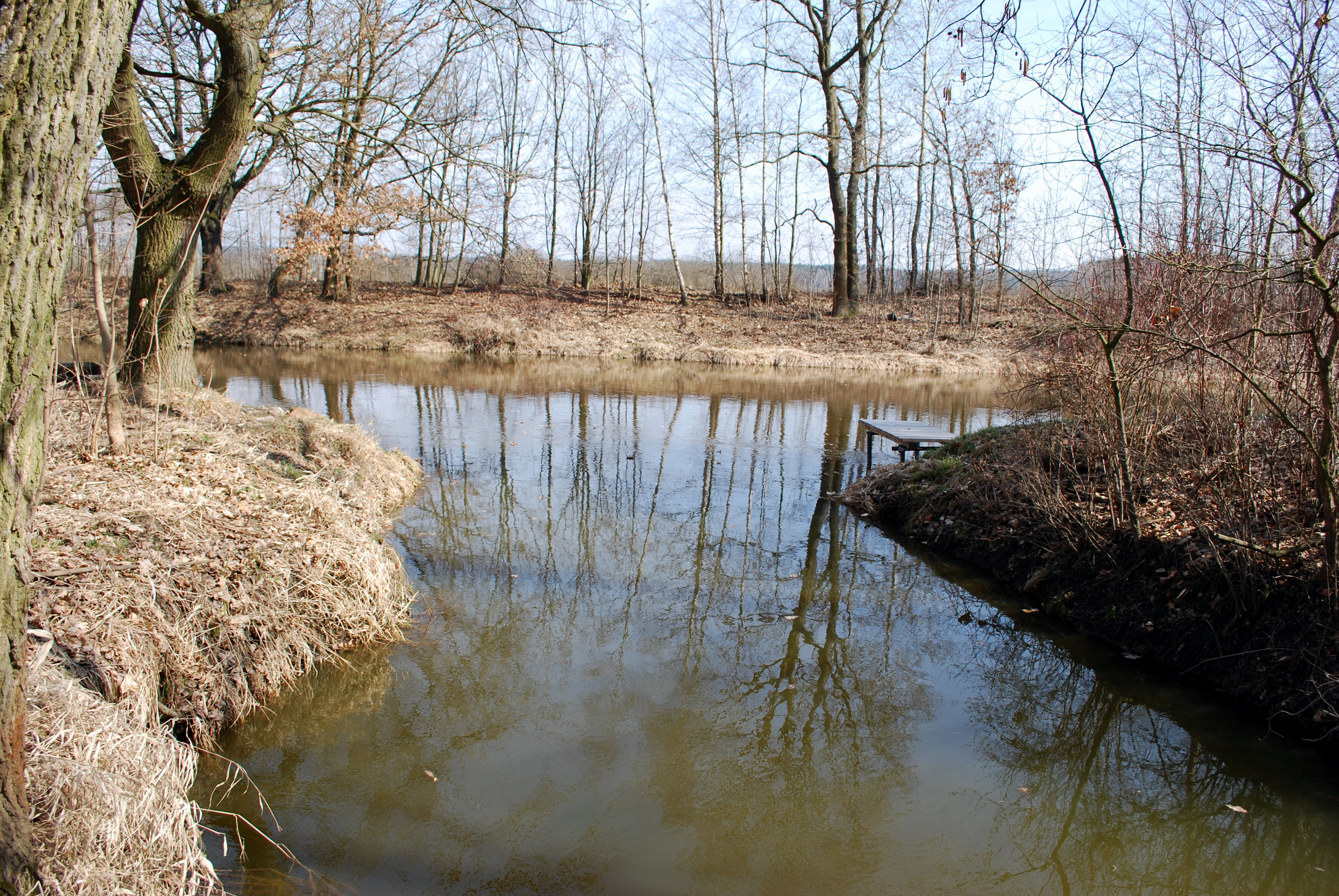 Canal Zlatá stoka in Třeboňsko area, Czech Republic. This photograph was taken within the scope of the 'Czech Municipalities Photographs' grant. - OpenStreetMap(Info)